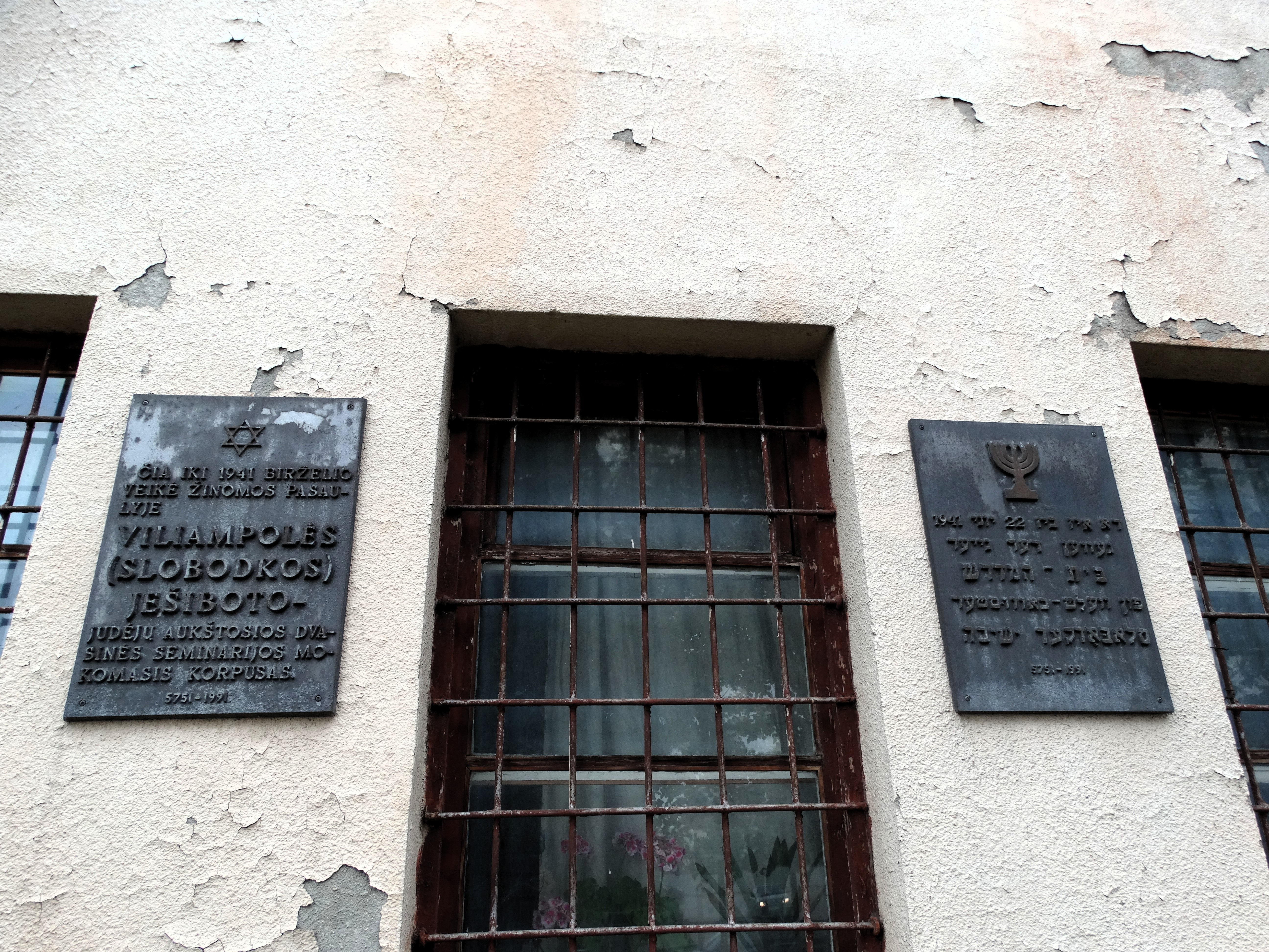 Commemorative plaque to former Vilijampolė (Slobodka) yeshiva, Kaunas, Lithuania